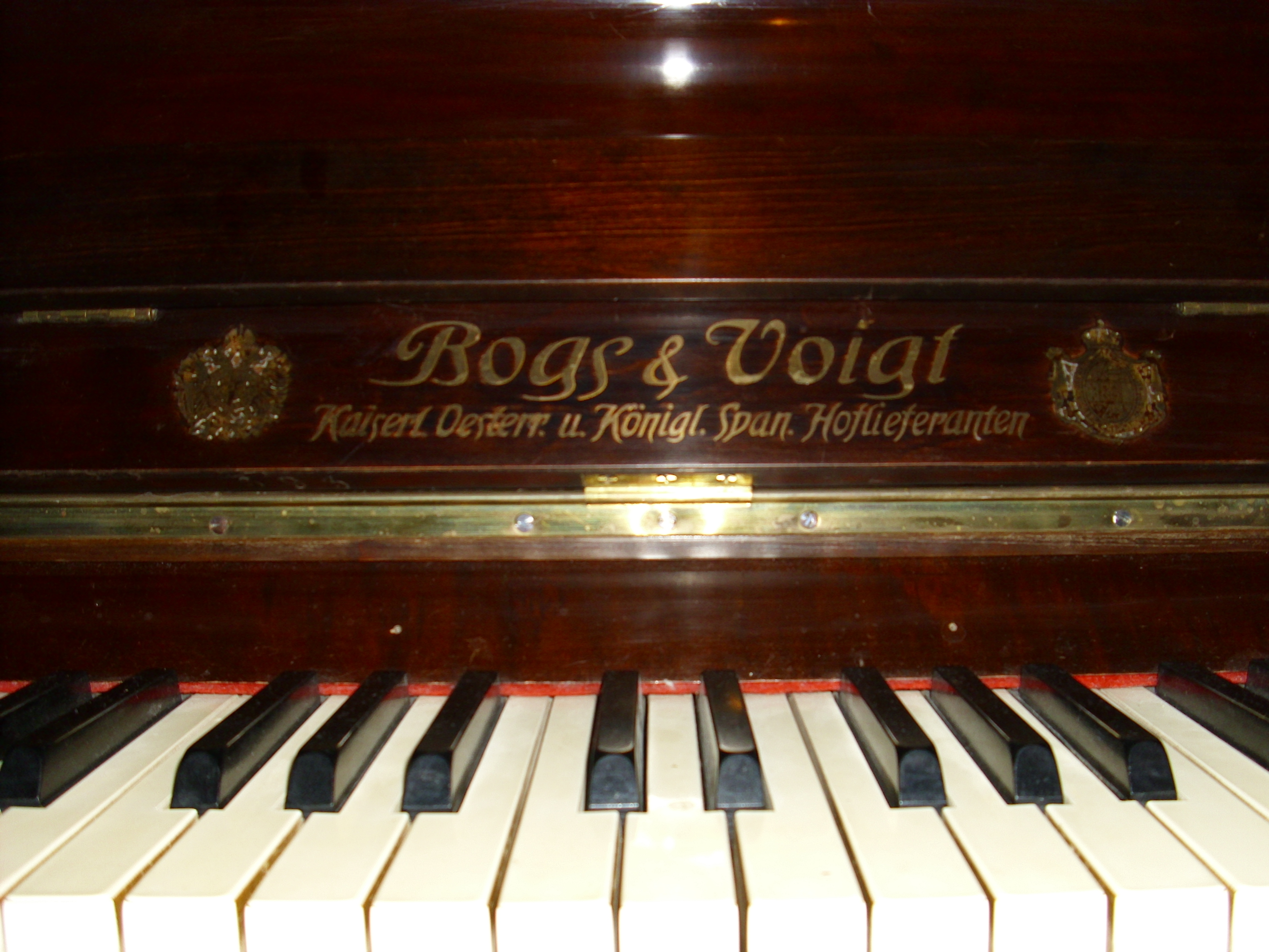 Bogs & Voigt logotype